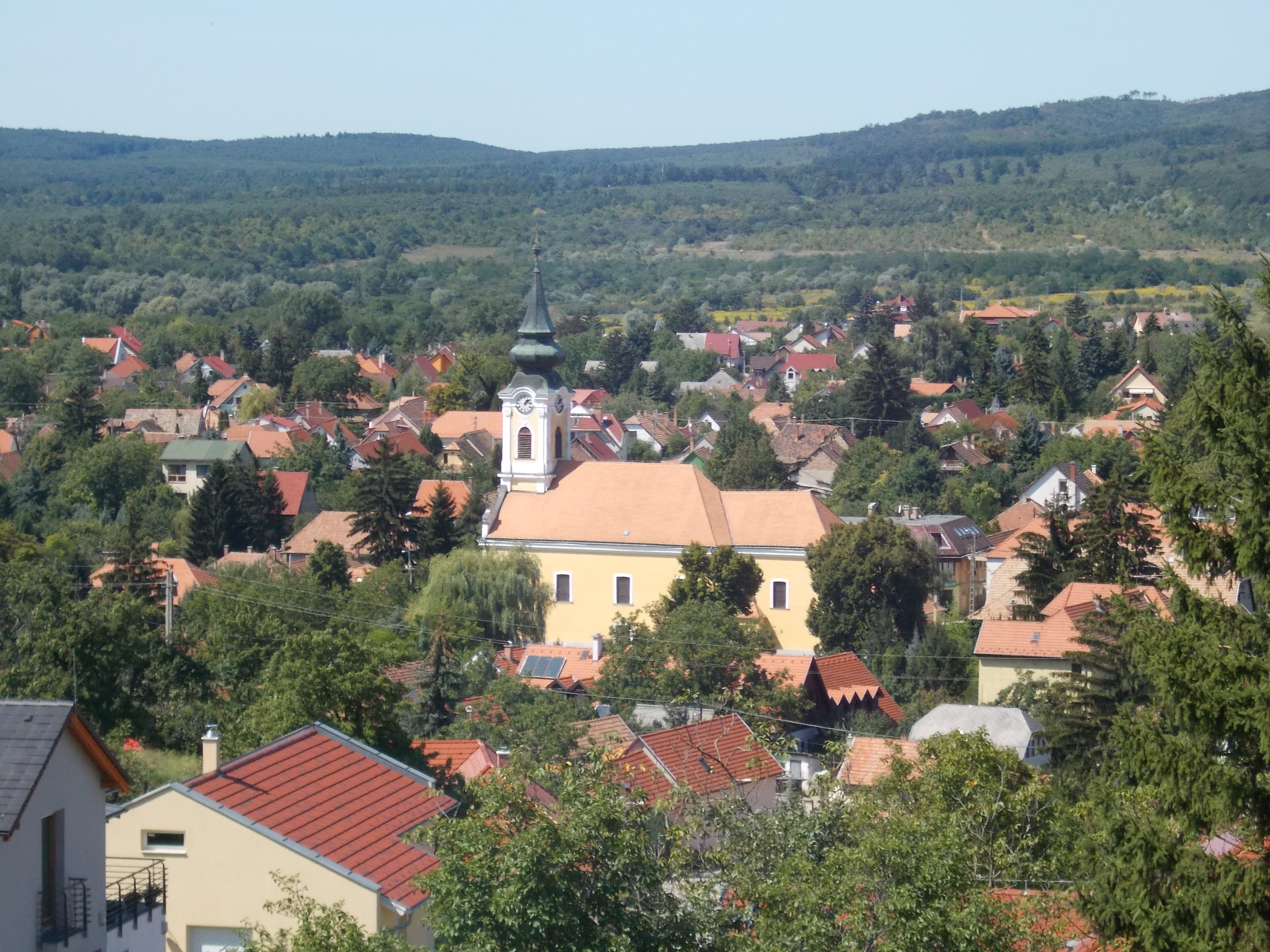 View to Budakeszi (Our Lady of the Snow church in Budakeszi) - Jókai street, Budakeszi, Pest County, Hungary